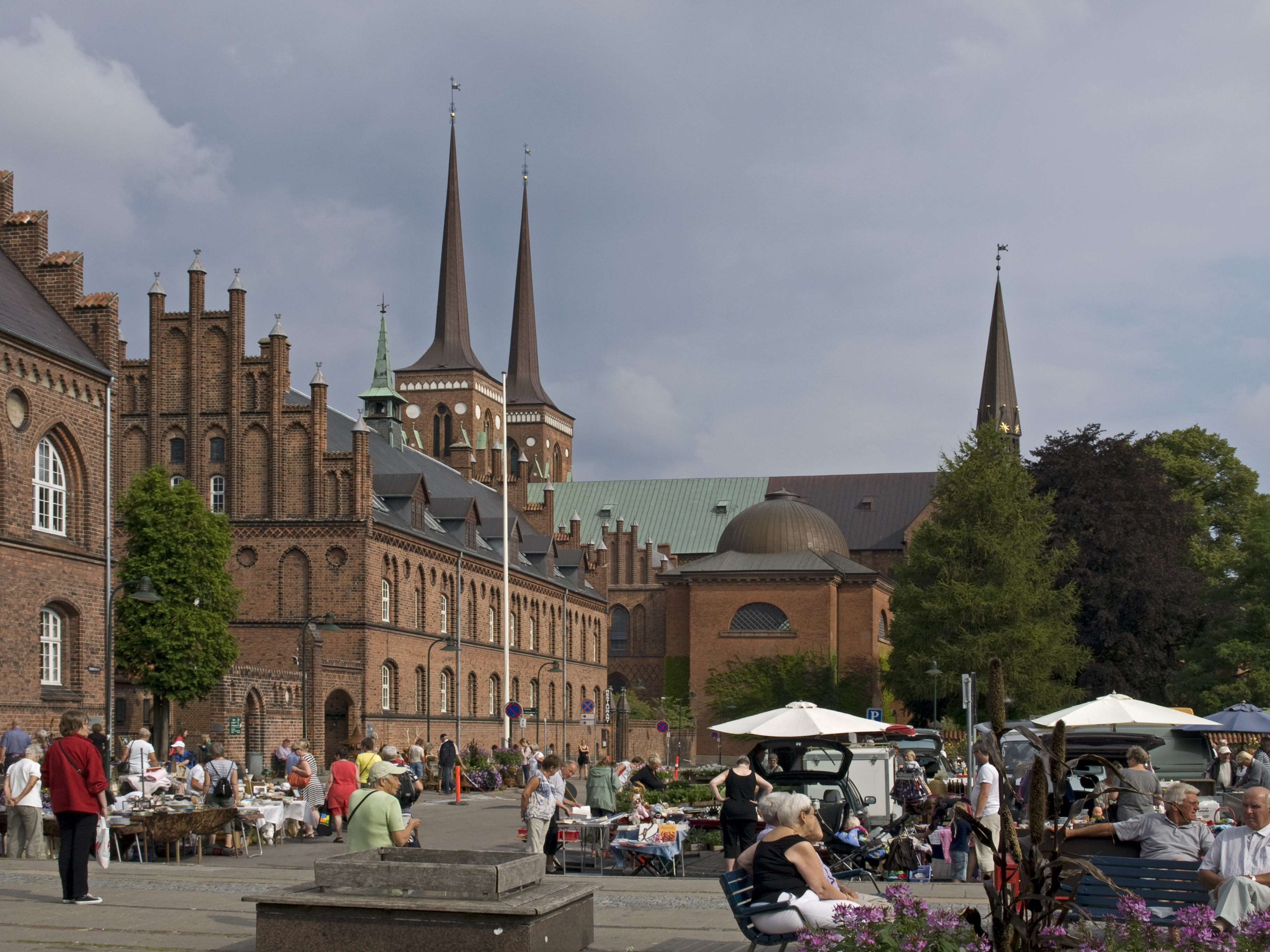 Torvet Square, Roskilde. The cathedral is on the background; the old city hall is on the left.